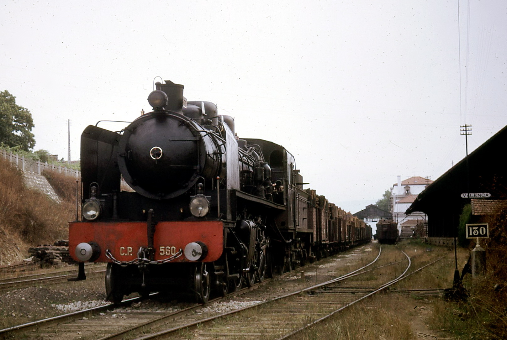 The last pacific locomotive of CP (Portuguese Railways), No. 560, working at Valença in August 1970